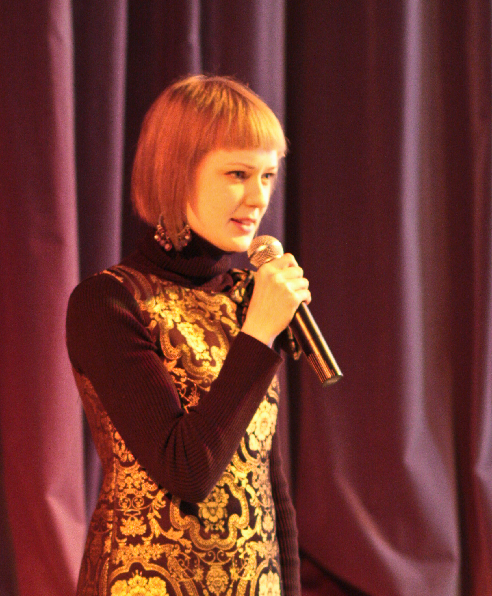 Triānas Parks, poprock group from Latvia